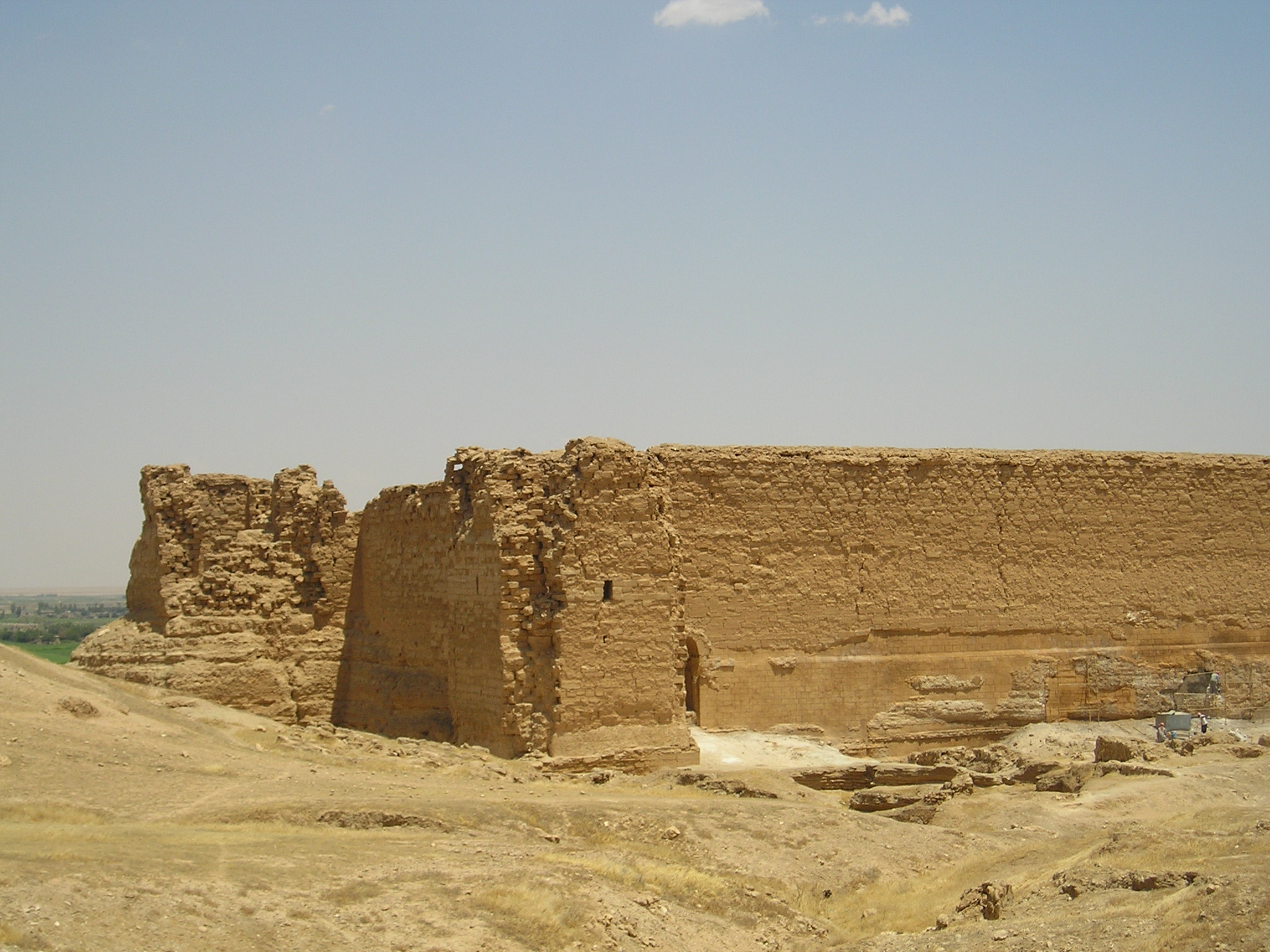 Dura - Europos, Syria. Remains of the main citadel and palace above the Euphrates.